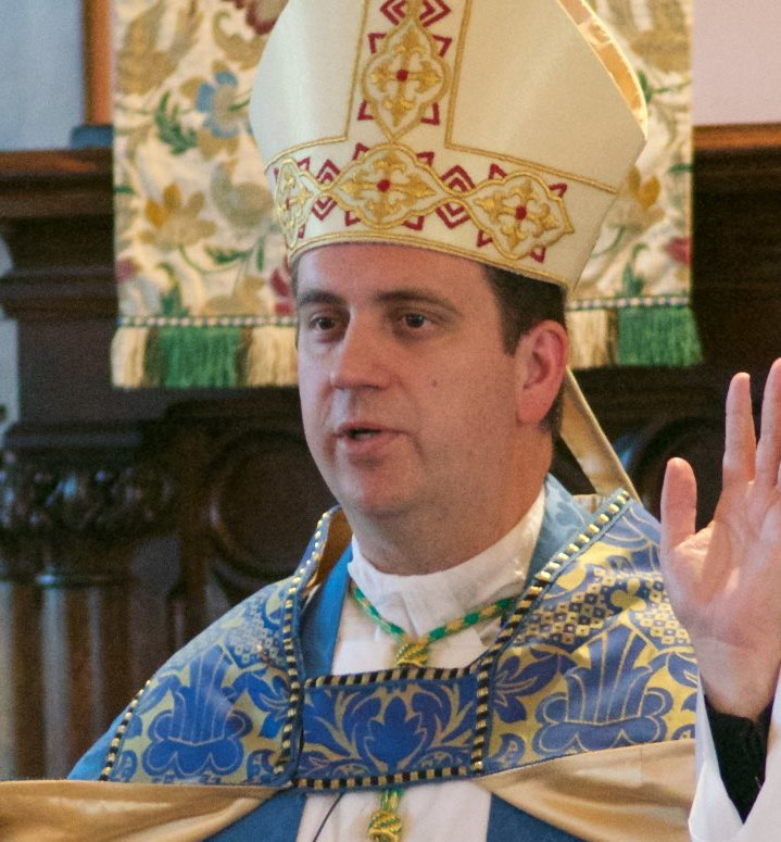 Bishop Steven J. Lopes at St John the Evangelist, Calgary